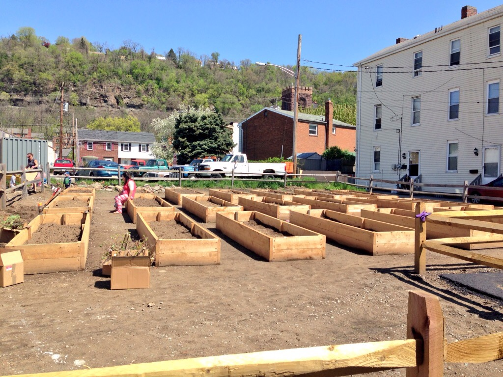 Sharpsburg Community Garden.